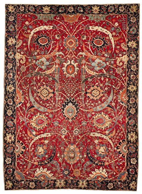 The Clark "Sickle-Leaf", vine scroll and palmette carpet, probably Kirman, South Persia, 17th century, approximately 8ft. 9in. by 6ft. 5in. (2.67 by 1.96m.)